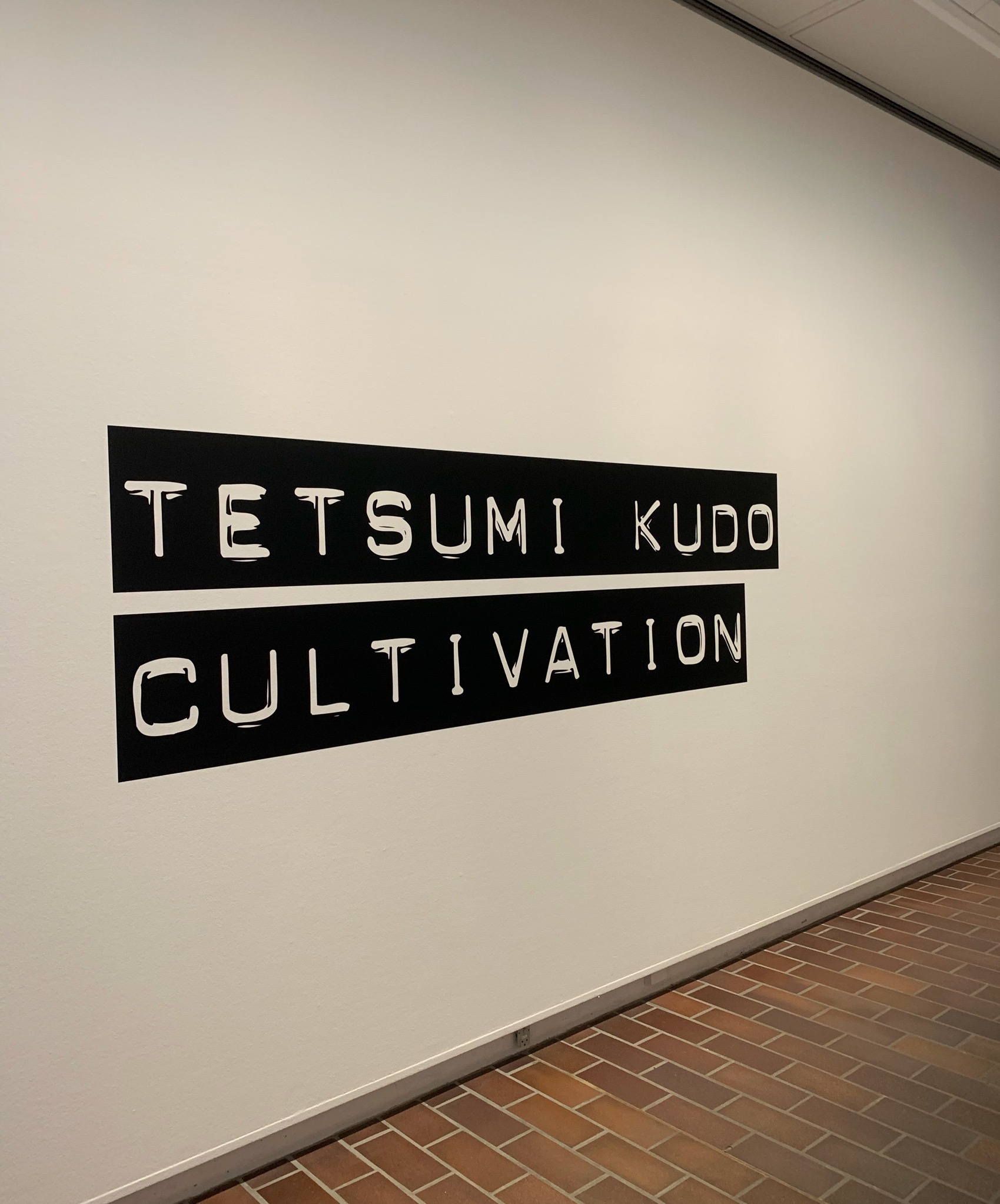 Japanese artist Tetsumi Kudo at Louisiana Museum of Modern Art June 2020